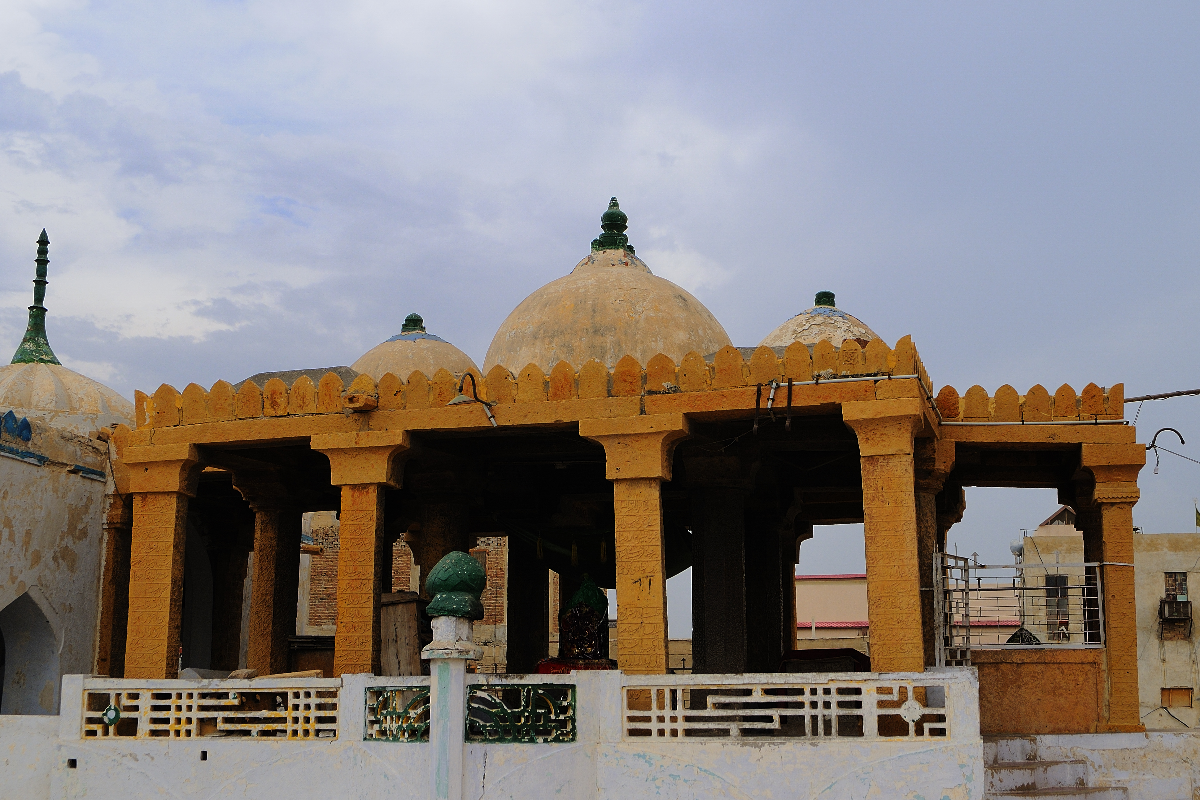 Mir Masum's Minar and tomb This is a photo of a monument in Pakistan identified as the SD-56